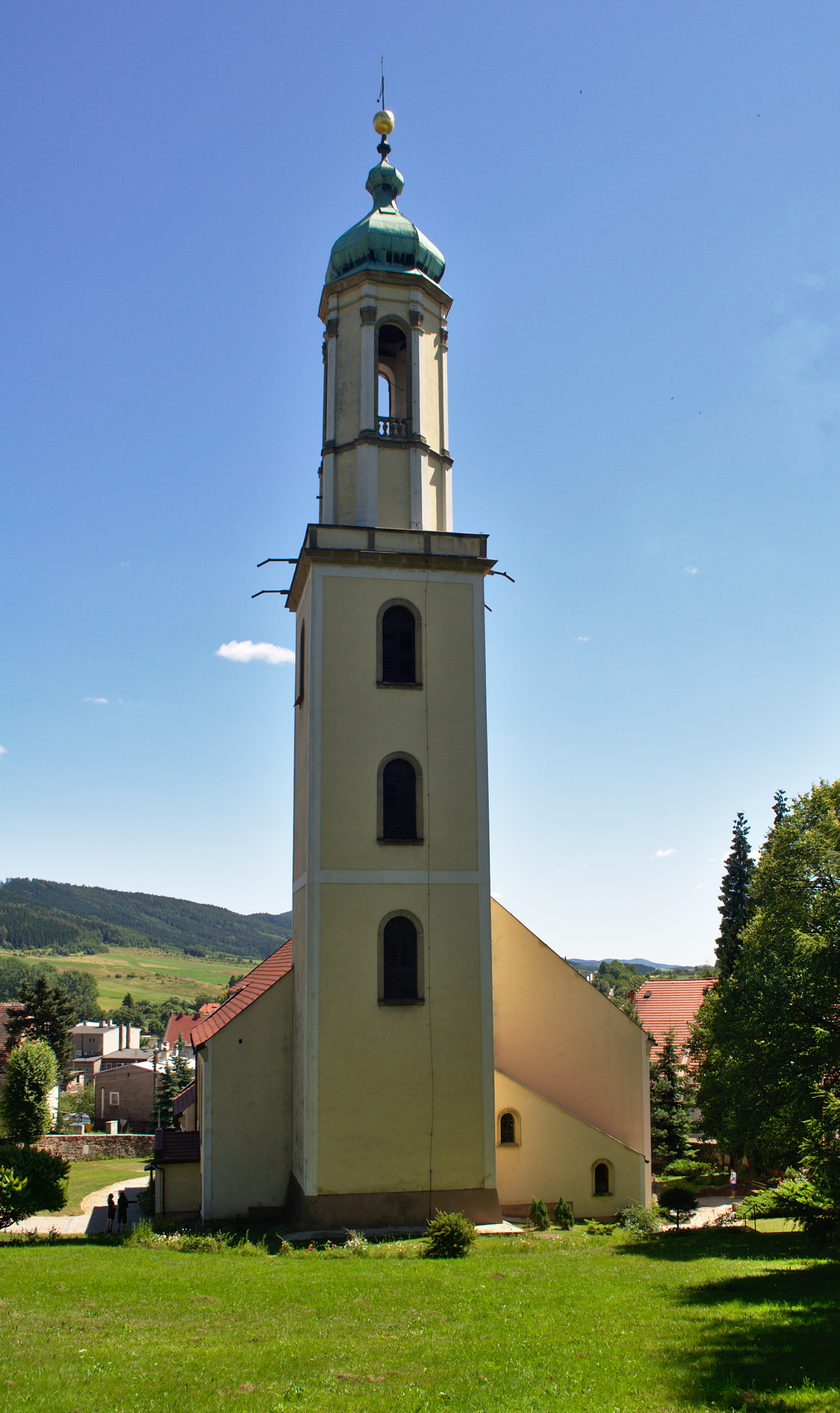 Church in Mieroszów